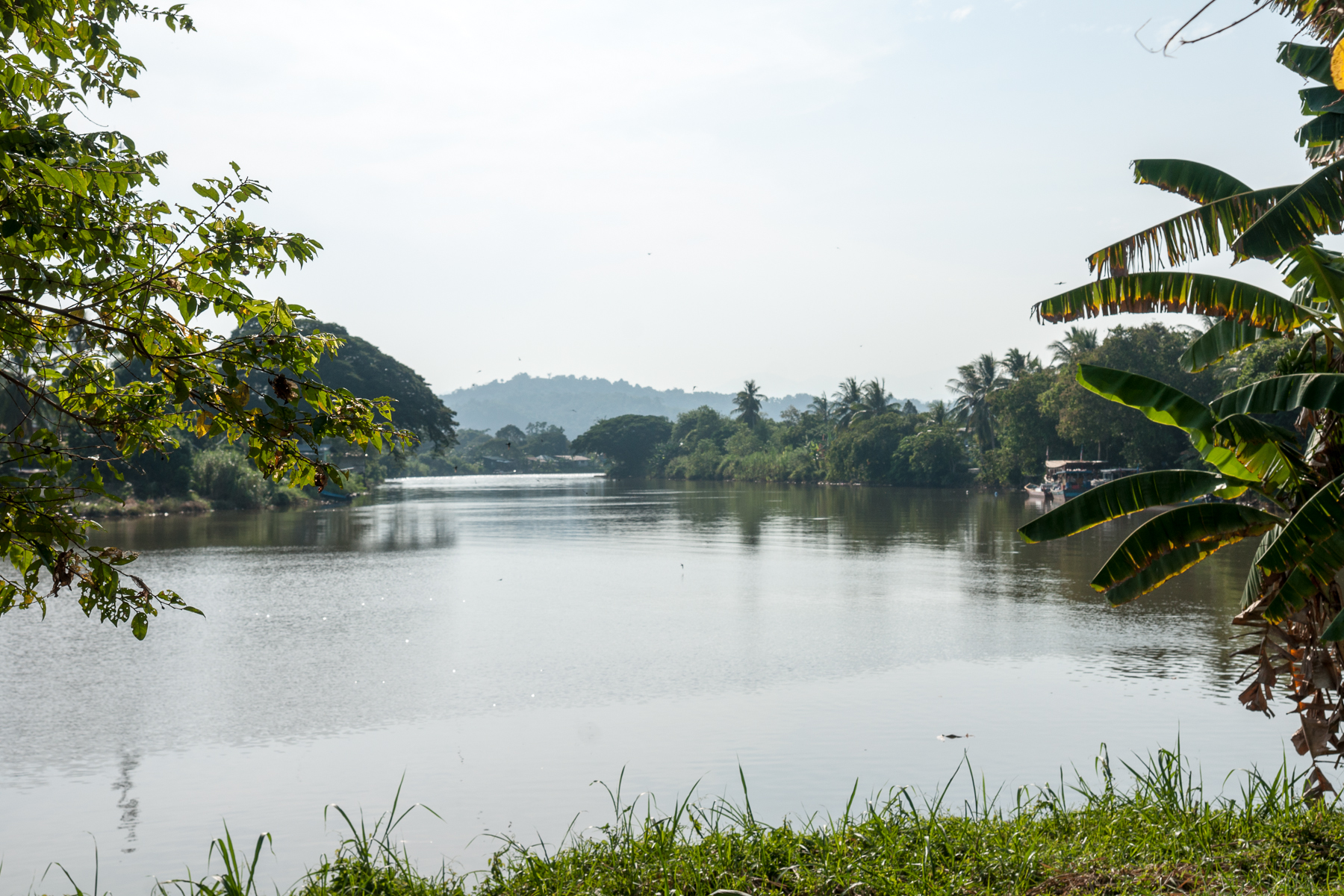 Rivers of Sabah, Malaysia: Sungai Papar in Papar